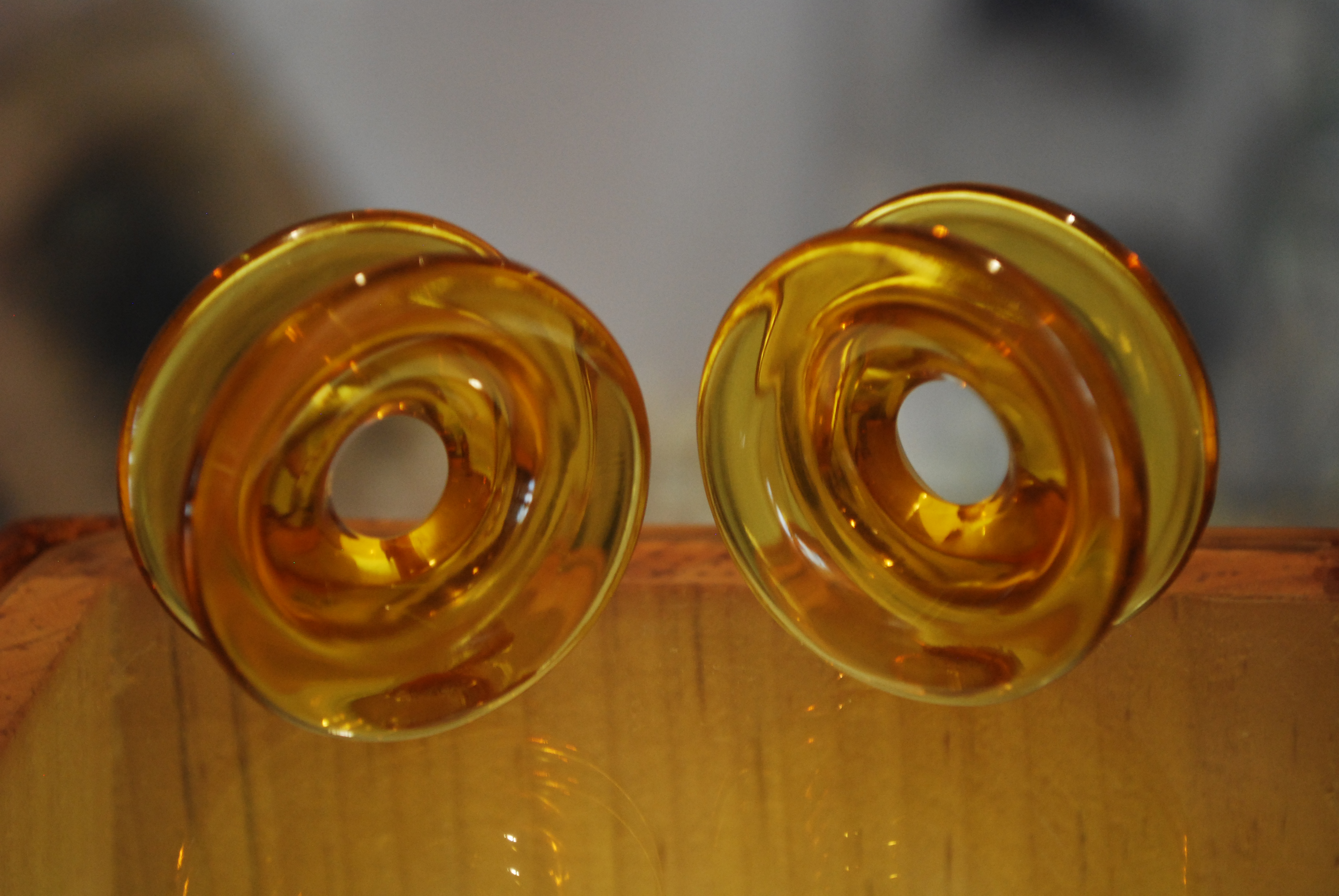 Pre Hispanic ear disks on display at the Museum of Amber in San Cristobal de las Casas, Chiapas, Mexico